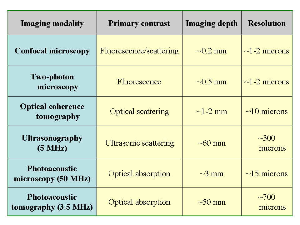 Comparison of confocal microscopy, two-photon microscopy, optical coherence tomography, ultrasonography (5 MHz), photoacoustic microscopy (50 MHz), and photoacoustic tomography (3.5 MHz).